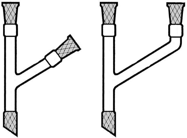 Forshtoss (1)